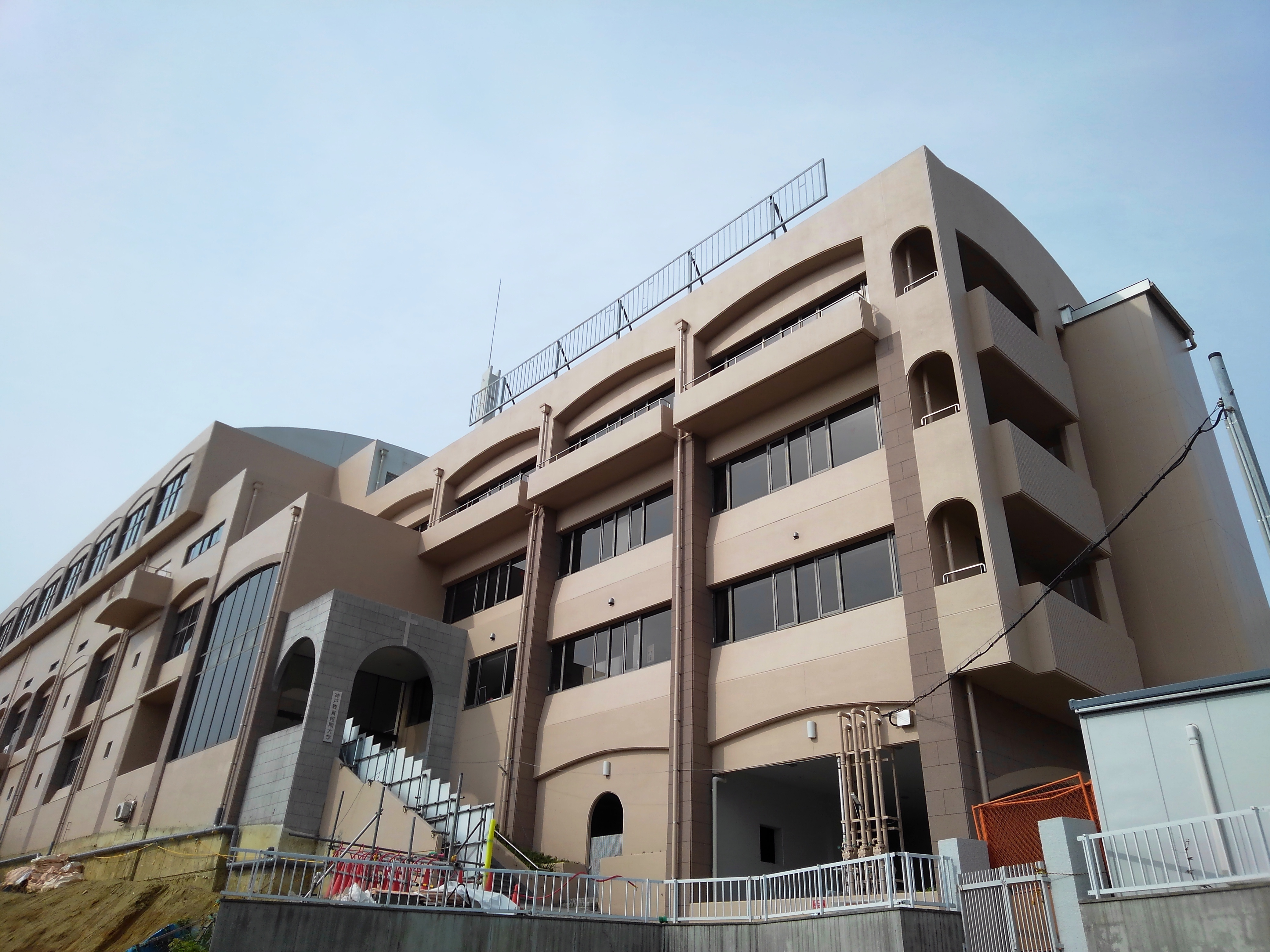 Kobe College of Education (formerly Shukugawa Gakuin College) in Nagata-ku, Kobe, Hyogo, Japan.